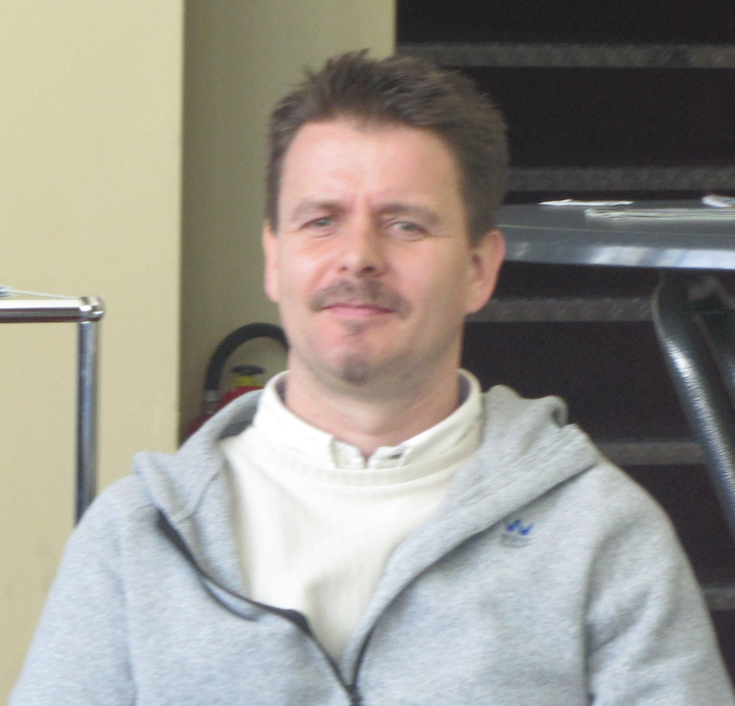 Portrait of German Christian Rudolph at the 2013 European Championship in Brandenburg/Havel, Germany. Cropped from File:Carom_Billiards_EC_Brandenburg_Havel-GER_2013-04-20_06-Presentation_MyWebsport.JPG